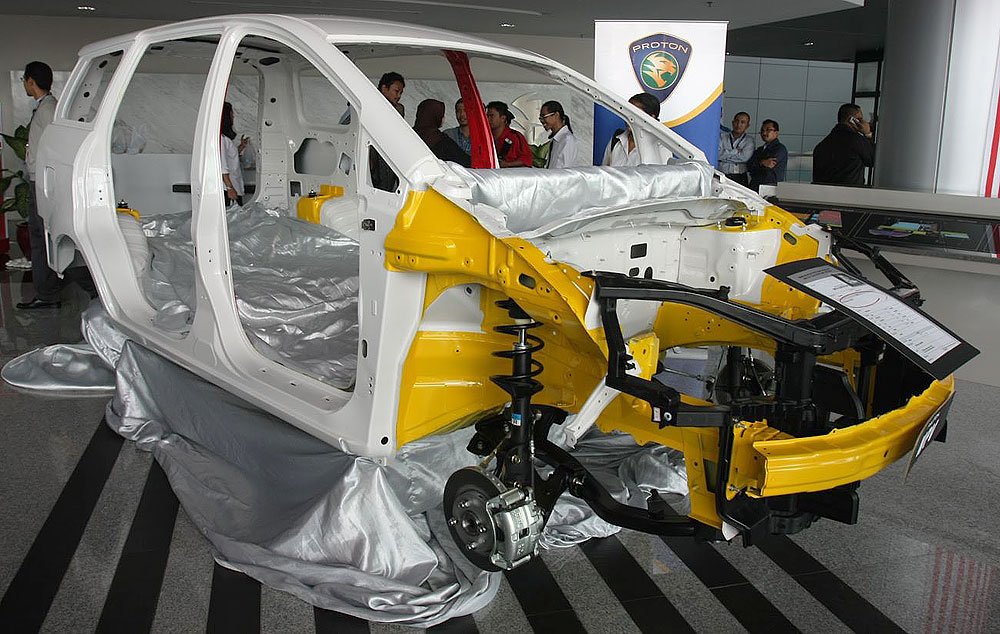 A bare chassis of the new Proton Exora MPV exhibited at the Proton Technology Week.